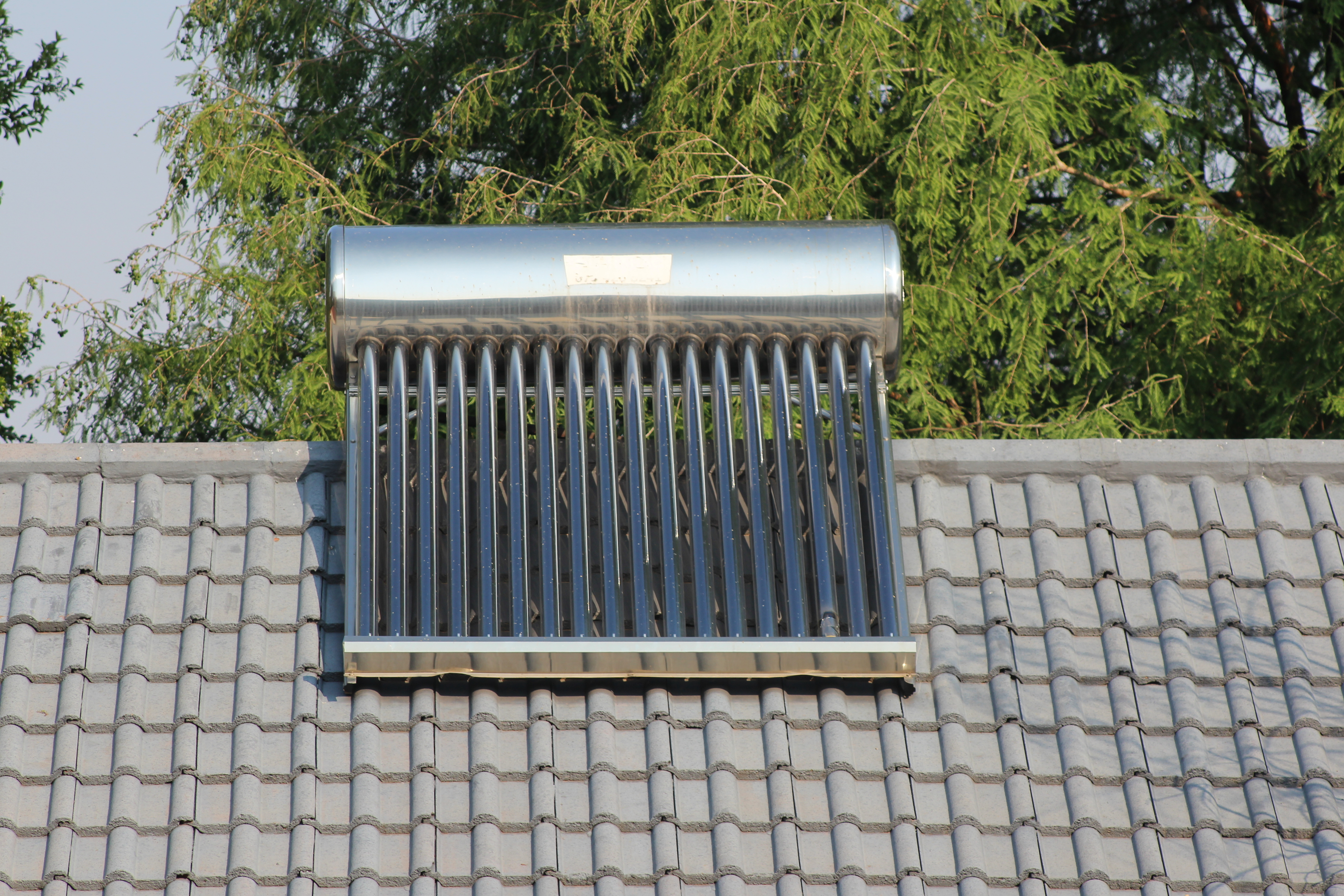 Domestic solar heater in Johannesburg, South Africa (about 1500 m above sea level). This heater supplies hot water for the servant's quarters, typically a single-occupancy flat.